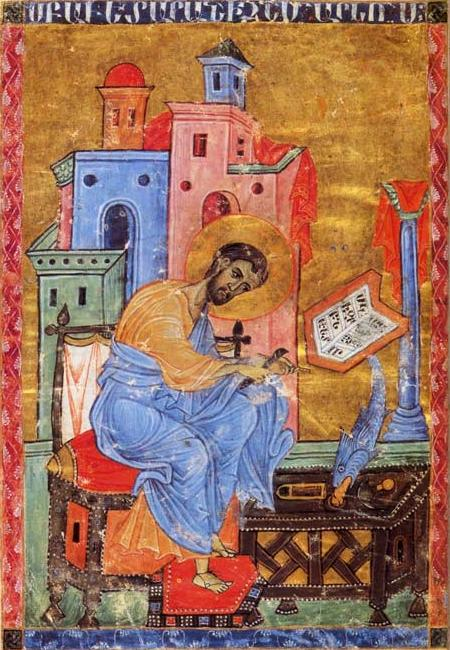 The Evangelists' portraits in the Gospels of Smbat, XIII century